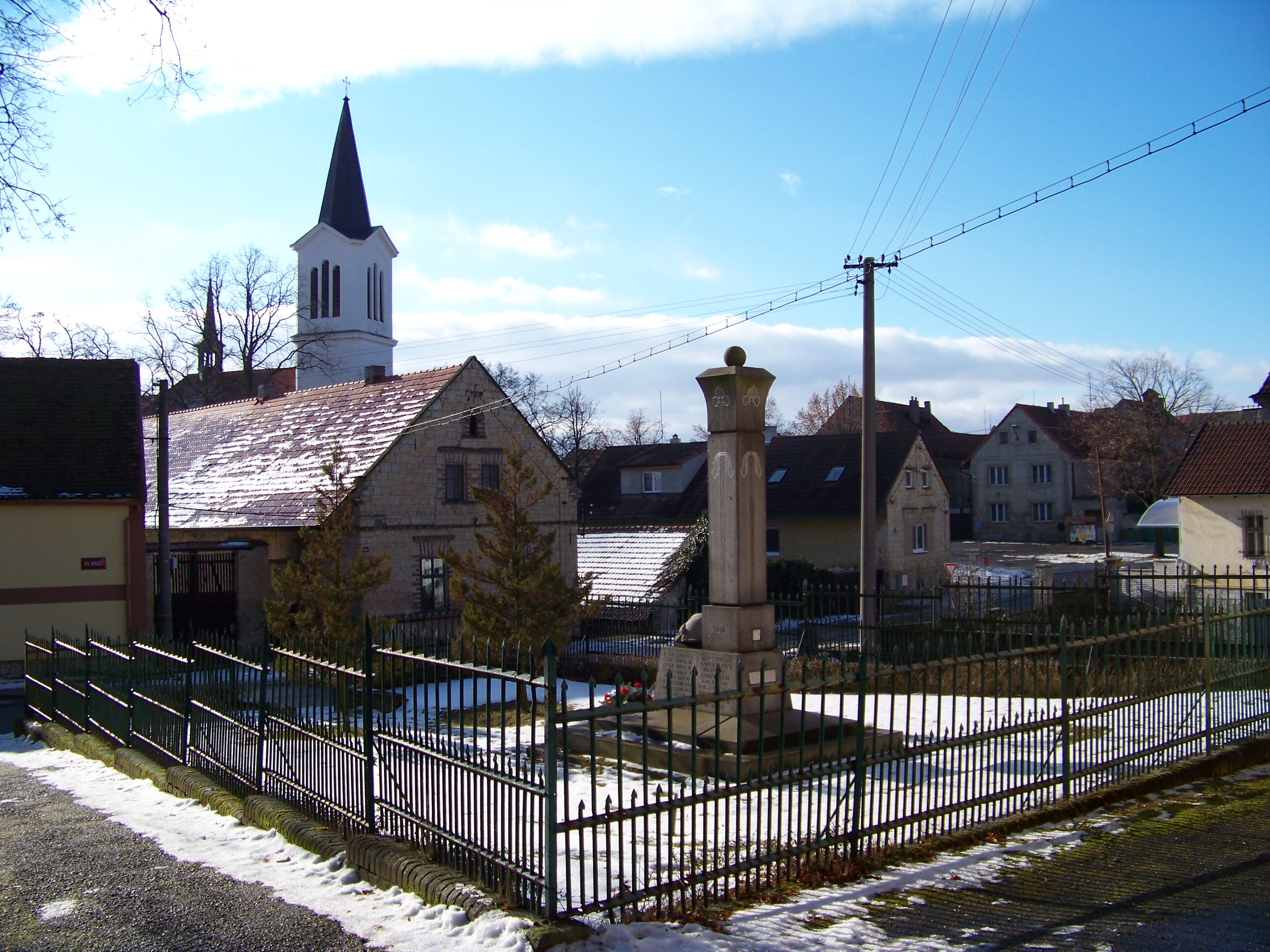 Mutějovice, Rakovník District, the Czech Republic.